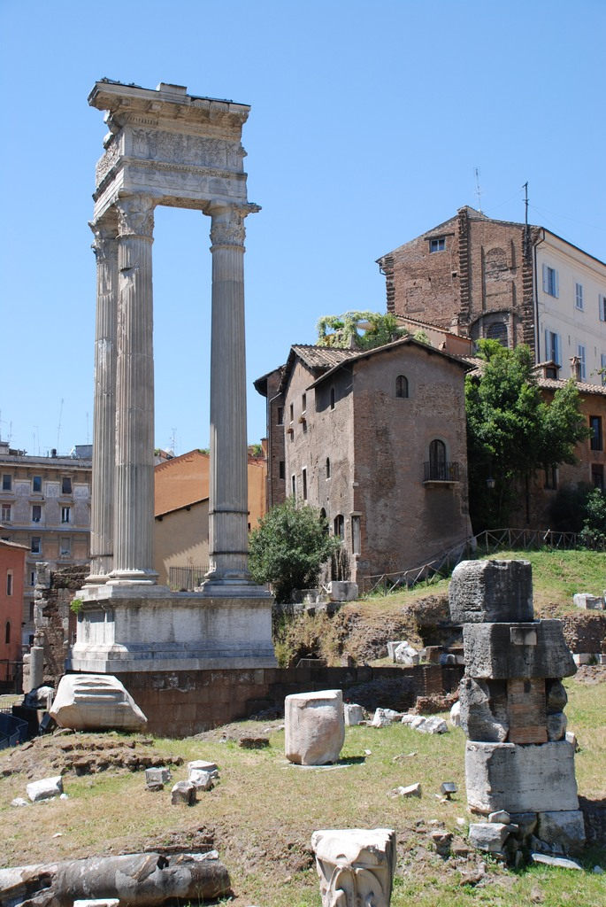 The Temple of Apollo Sosianus (previously known as the Apollinar and the temple of Apollo Medicus) is a Roman temple dedicated to Apollo in the Campus Martius, next to the Theatre of Marcellus and the Porticus Octaviae. Its present name derives from that of its final rebuilder, Gaius Sosianus.